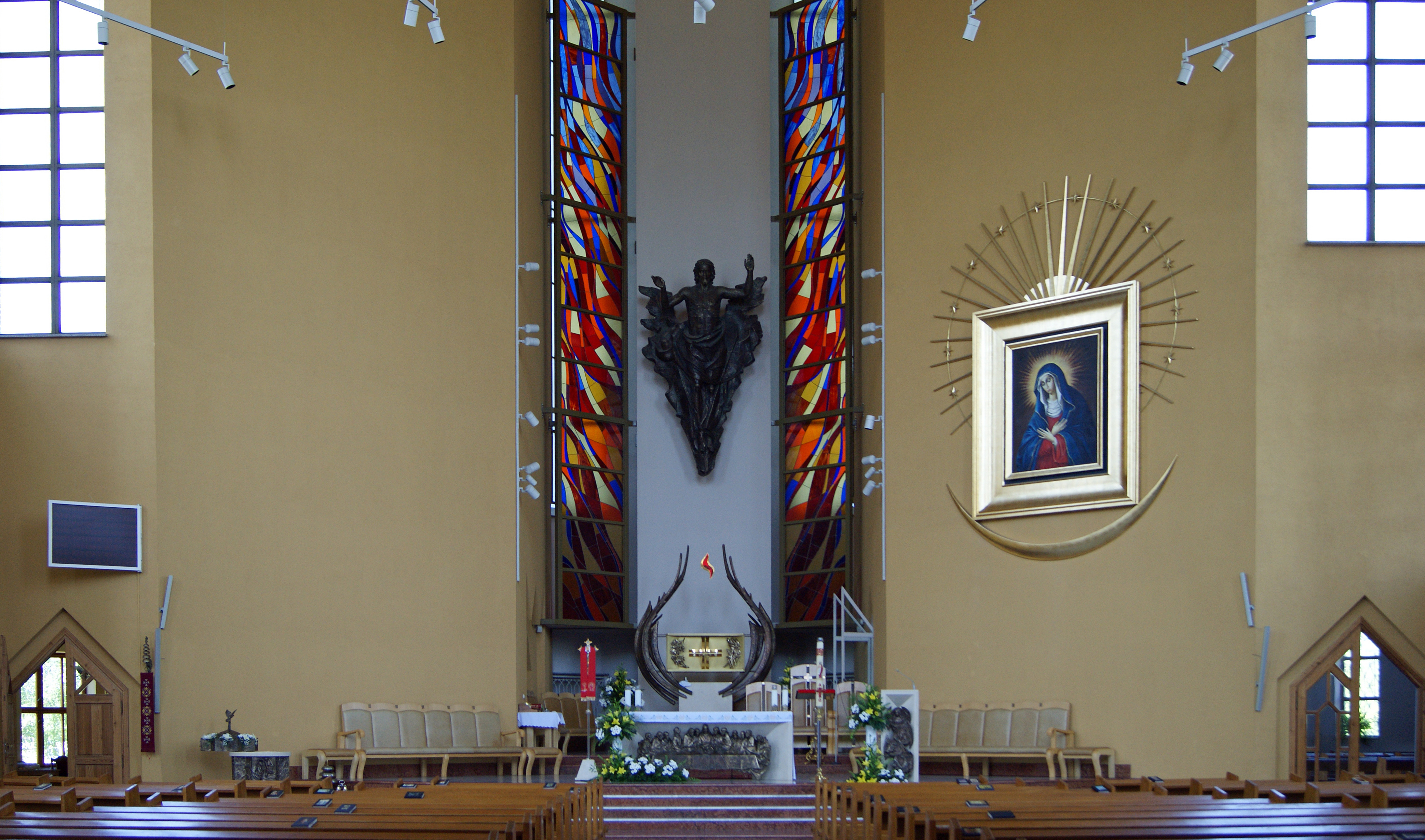 Our Lady of the Gate of Dawn Church (interior), 20 Meissnera street, Krakow, Poland